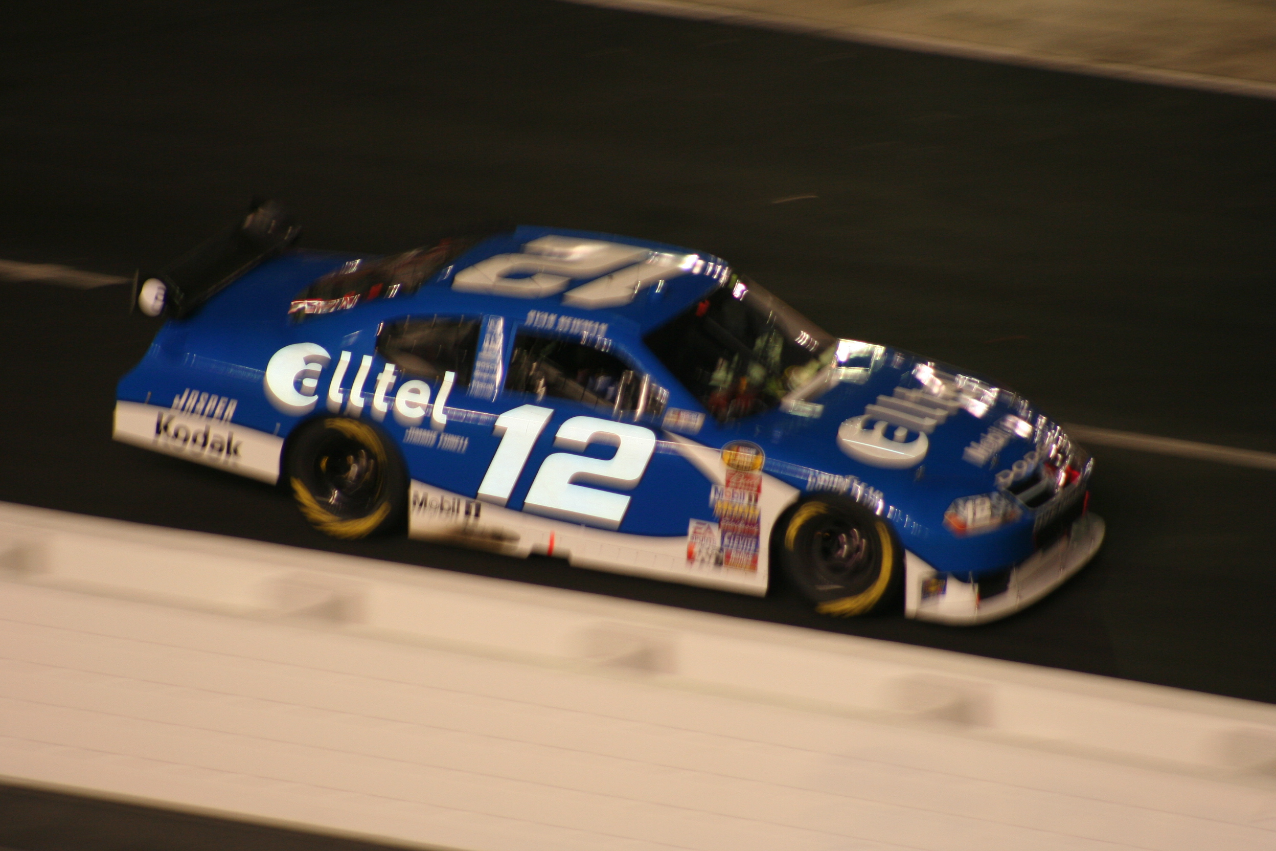 NASCAR driver Ryan Newman at Bristol Motor Speedway in August 2007